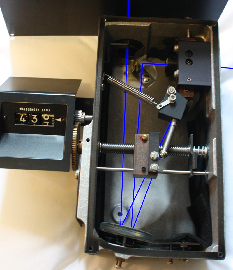 Fastie-Ebert monochromator and mechanical wavelength display from a UV-vis spectrophotometer. The path of light is visualized in blue.